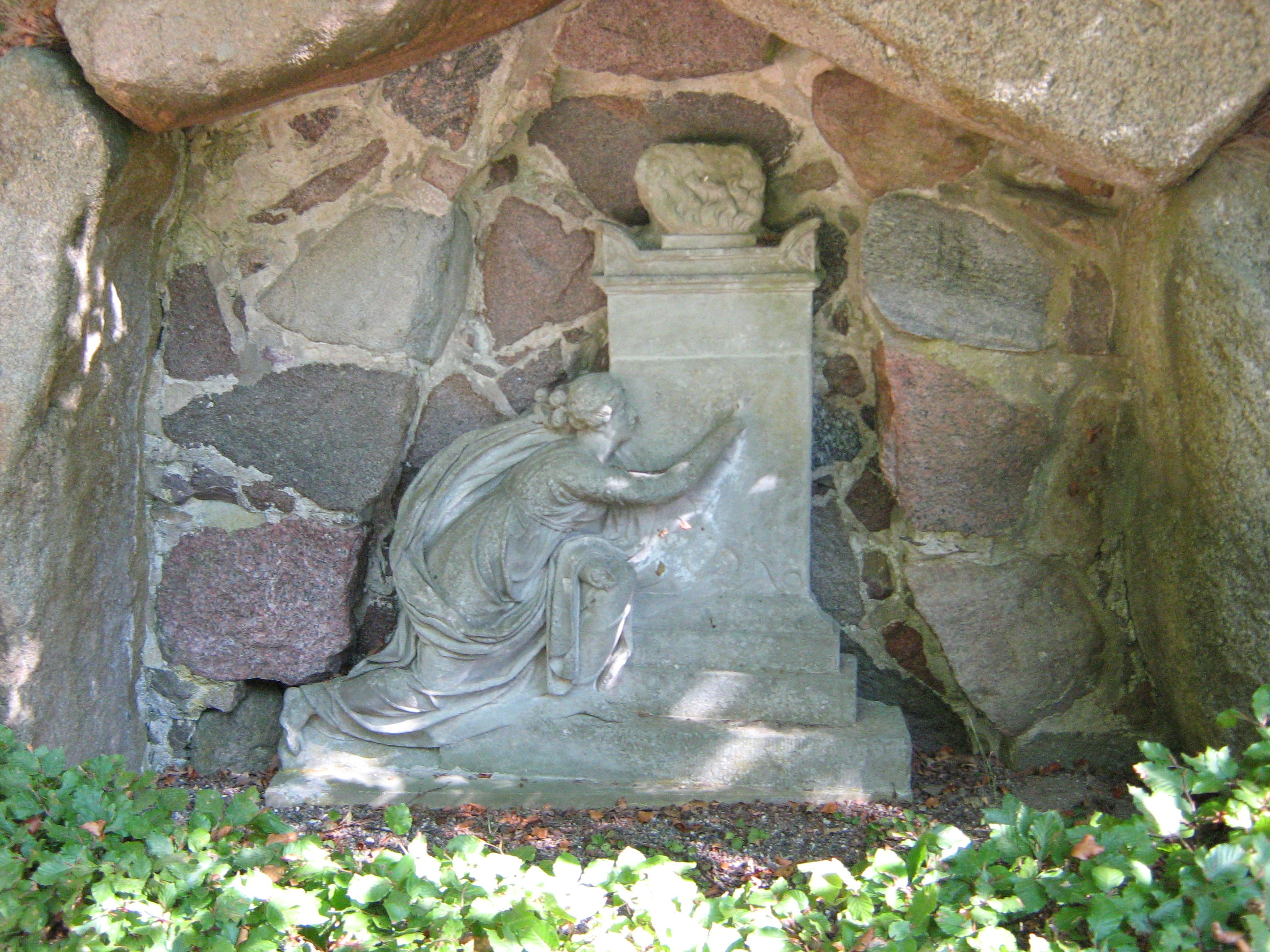 Liselund, Møn, Denmark. Ornamental monument to L'Amitié or Friendship.